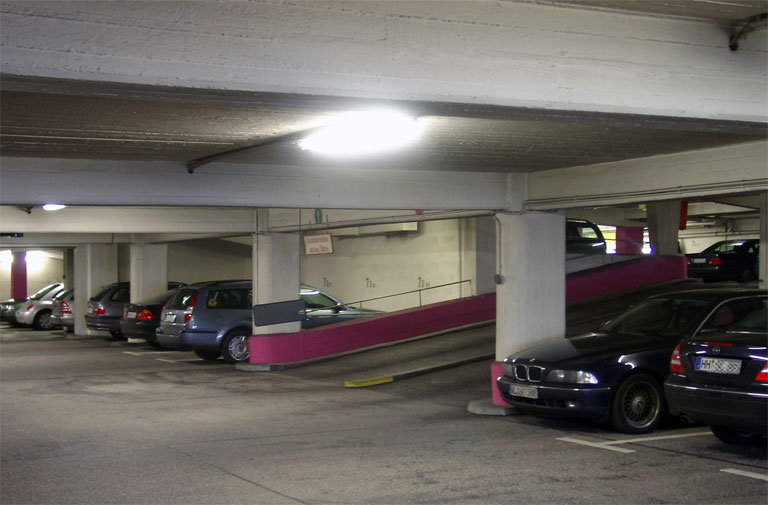 Multi-storey car parks in Germany.